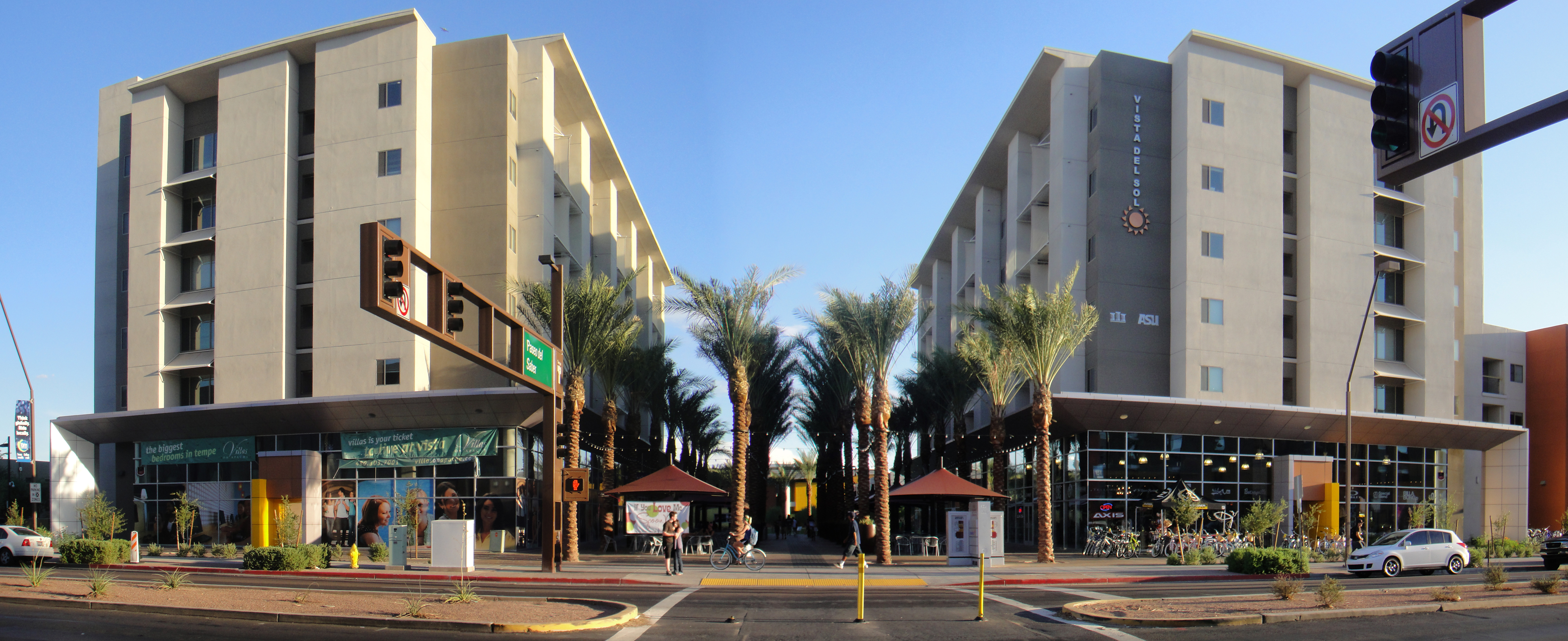 Photo of the north side of the Vista Del Sol towers and the Paseo Exchange along Apache Boulevard. Part of the ASU Main Campus in Tempe, Arizona